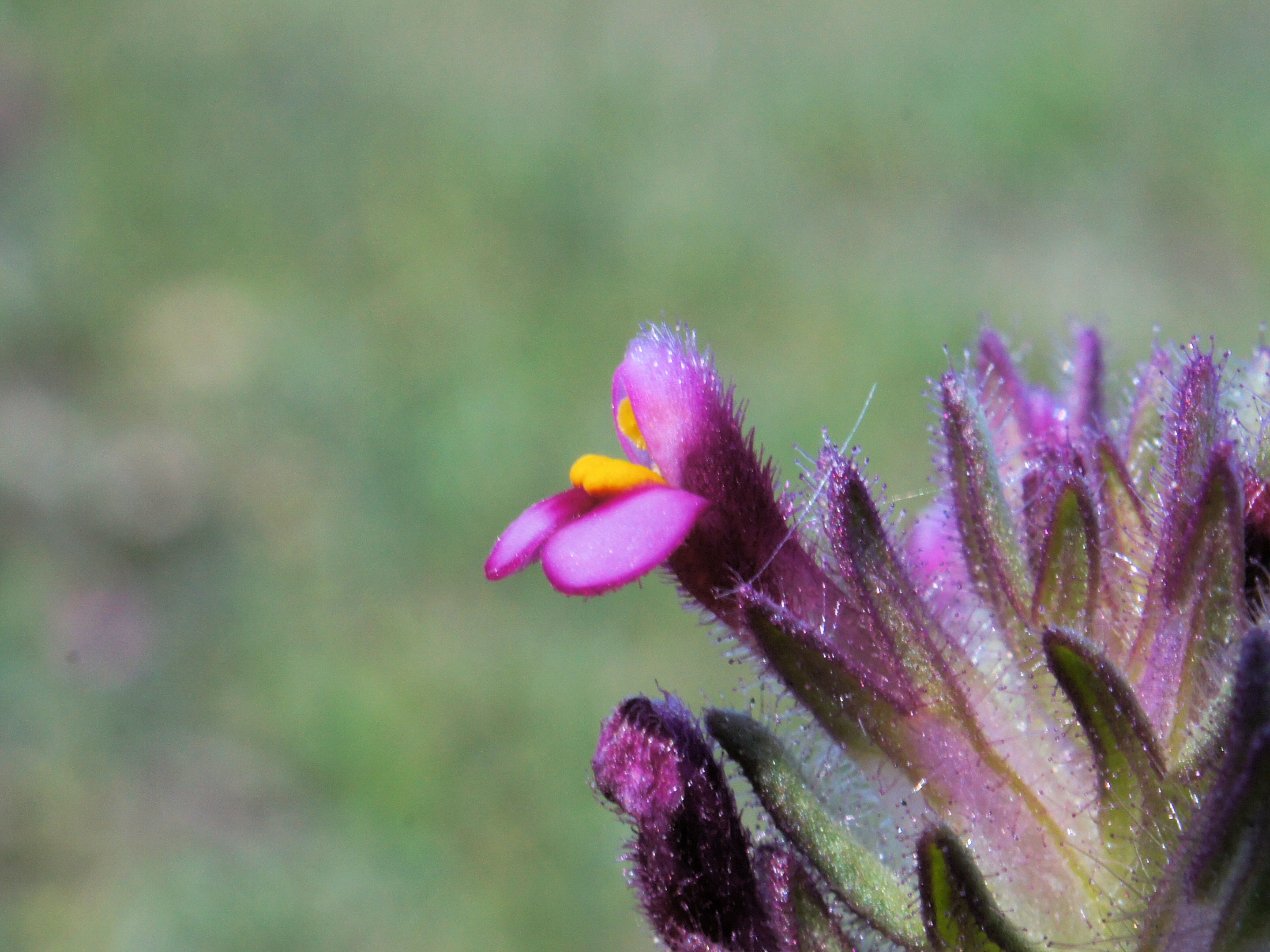 Introduced, cool season, annual, slender, erect herb 5–30 cm tall, covered by soft glandular and stiff non-glandular hairs. Leaves are sessile, opposite, ovate to broad-ovate, 3–15 mm long, 2–7 mm wide, margins toothed, upper leaves with 2 or rarely 3 pairs of teeth. Flowerheads are dense racemes with few to many subsessile flowers. Calyx is ribbed, 6–7 mm long, elongating to 8–10 mm long in fruit. Corolla is 8–10 mm long persistent in fruit, red-purple with the inner face of the lobes pink, rarely white throughout, with a slender tube and very short narrow upper and lower lips. Anthers 4, are yellow. Anative of the Mediterranean, it grows in woodland, in disturbed or overgrazed moist sites.